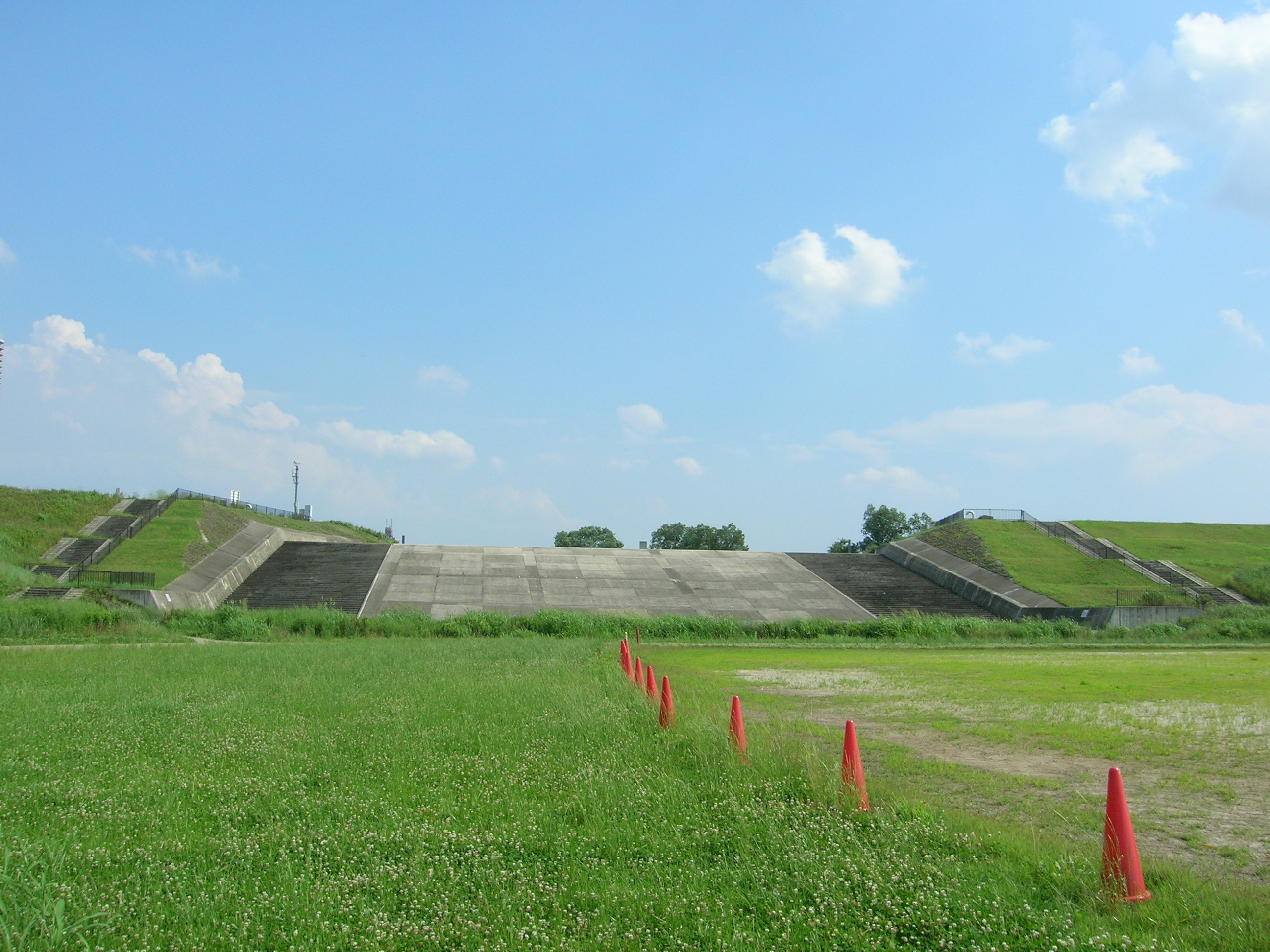 Shinkawa Araizeki (Shinkawa Overflow levee). Loc: Nagoya city, Aichi Prefecture, Japan. 緑地側から見た新川洗堰 撮影場所 愛知県名古屋市・洗堰緑地